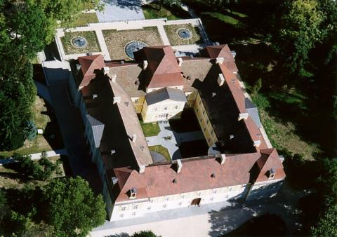 Hőgyész, Tolna county, palace, aerial photography This is a photo of a monument in Hungary. Identifier: 8631